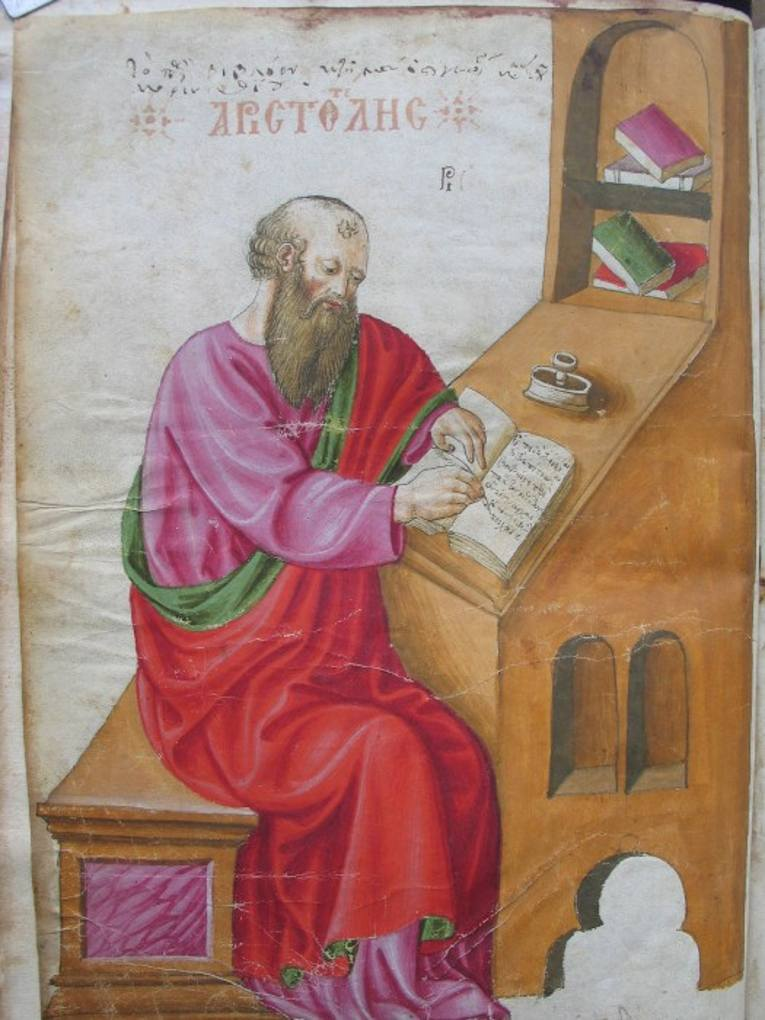 Aristotle, manuscript miscellany of philosophical writings, mainly texts by Aristotle (Greek) Rome, 1457. Cod. Phil. gr. 64, fol. 8v, Austrian National Library